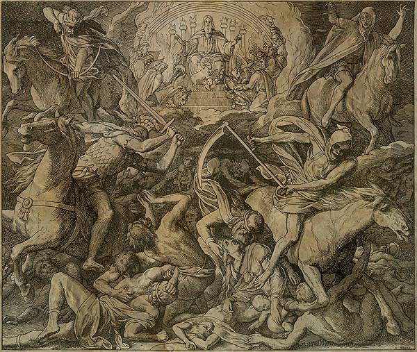 Woodcut for "Die Bibel in Bildern", 1860.